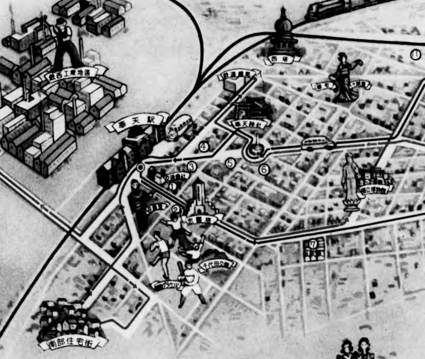 Mukden tourism map in Mukden tourism guide in 1939 by 奉天交通株式会社